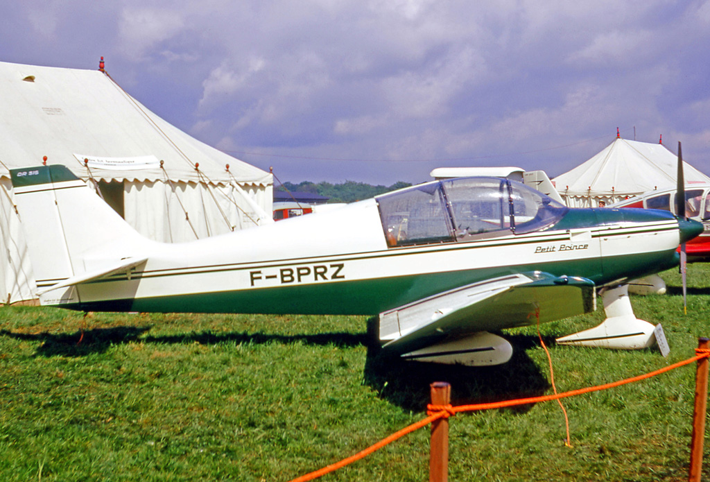 Robin DR-315 Petit Prince F-BPRZ at Biggin Hill London in 1969